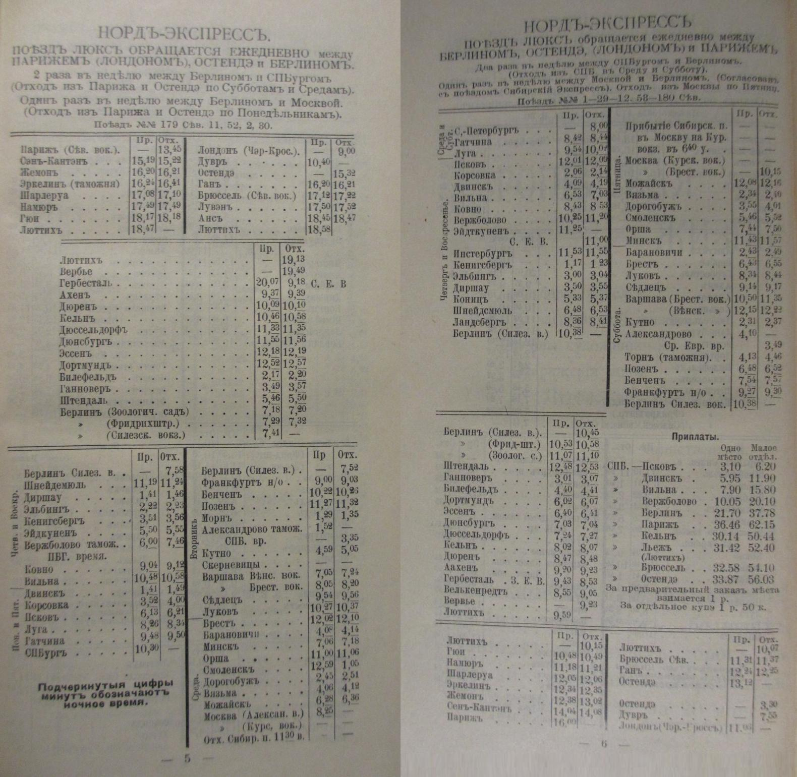 Timetable and ticket fares for luxury train Nord-Express (Paris-St.- Petersburg), 1914